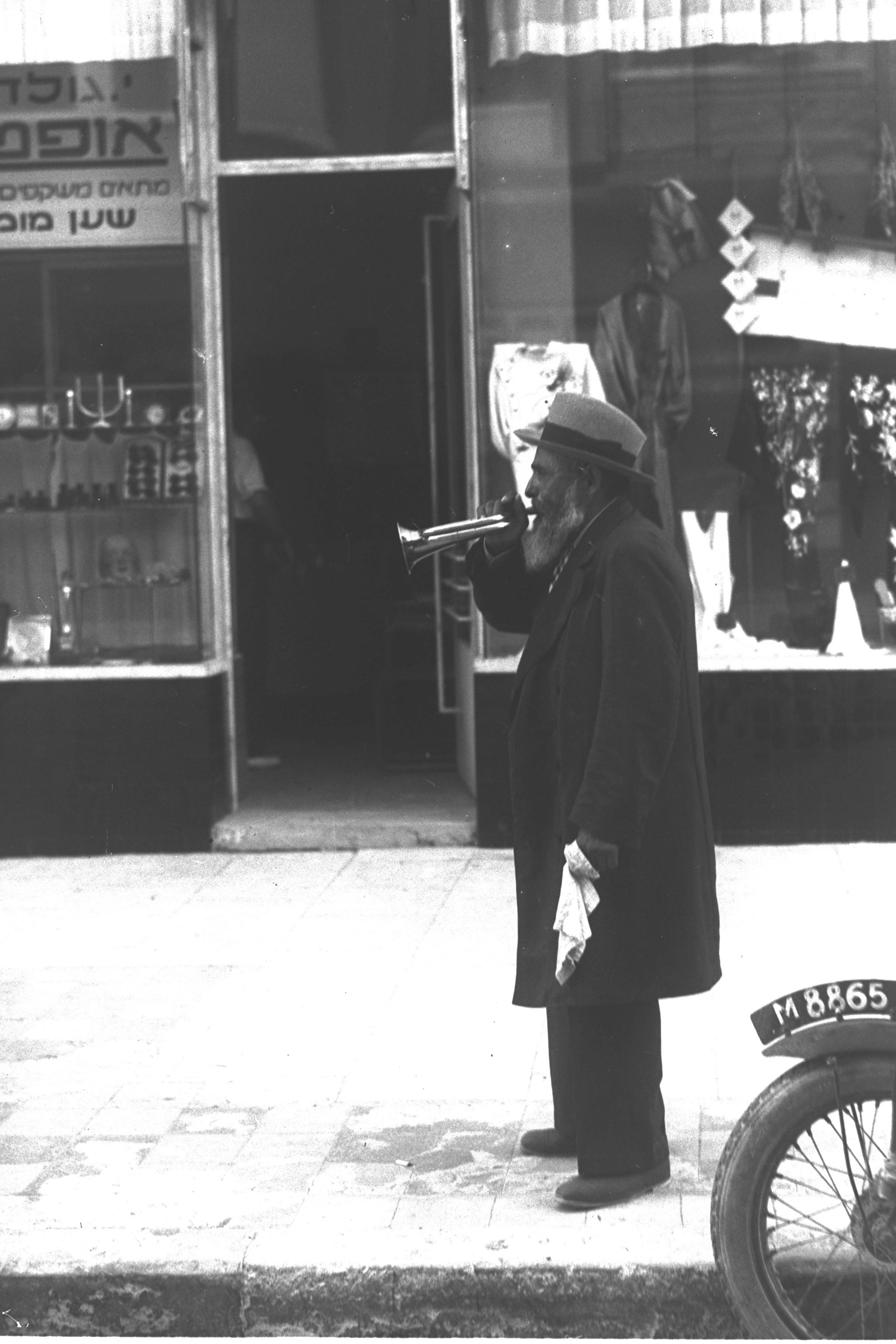 A BEADLE ANNOUNCING THE ENTRY OF SHABBAT WITH HIS TRUMPET IN THE STREET OF TEL AVIV. טיפוס מכריז על כניסת השבת, באמצעות נגינה על חצוצרה, ברחובות העיר תל אביב.